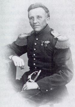 Daguerrotype of captain W.J. Knoop, Royal Dutch Military Academy, Breda